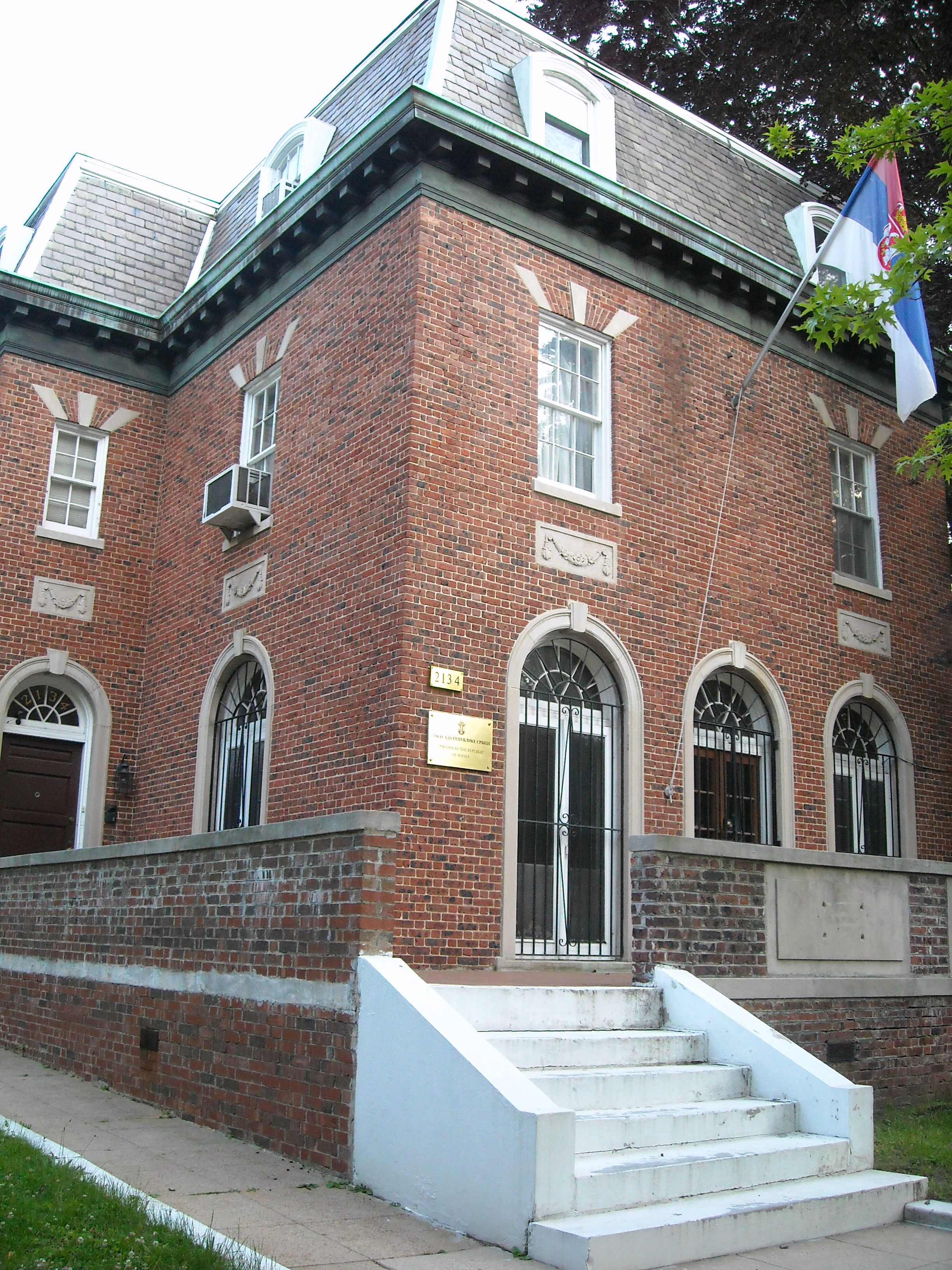 Former embassy of Serbia to the United States. The building is located at 2134 Kalorama Road NW Washington, D.C.